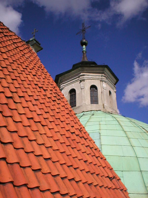 Roof of the Dominican Church in Lublin and the Tyszkiewicz Chapel